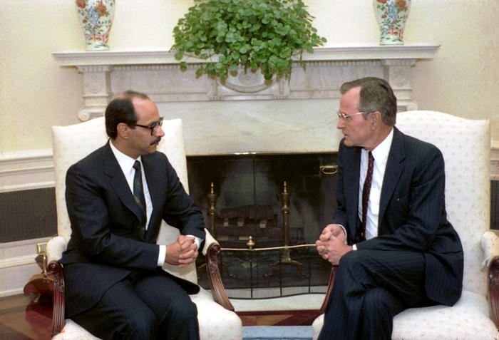 President George H. W. Bush meets with Kuwaiti Ambassador to the United States Sheikh Saud Nasir Al-Sabah in the Oval Office. 08 August 1990